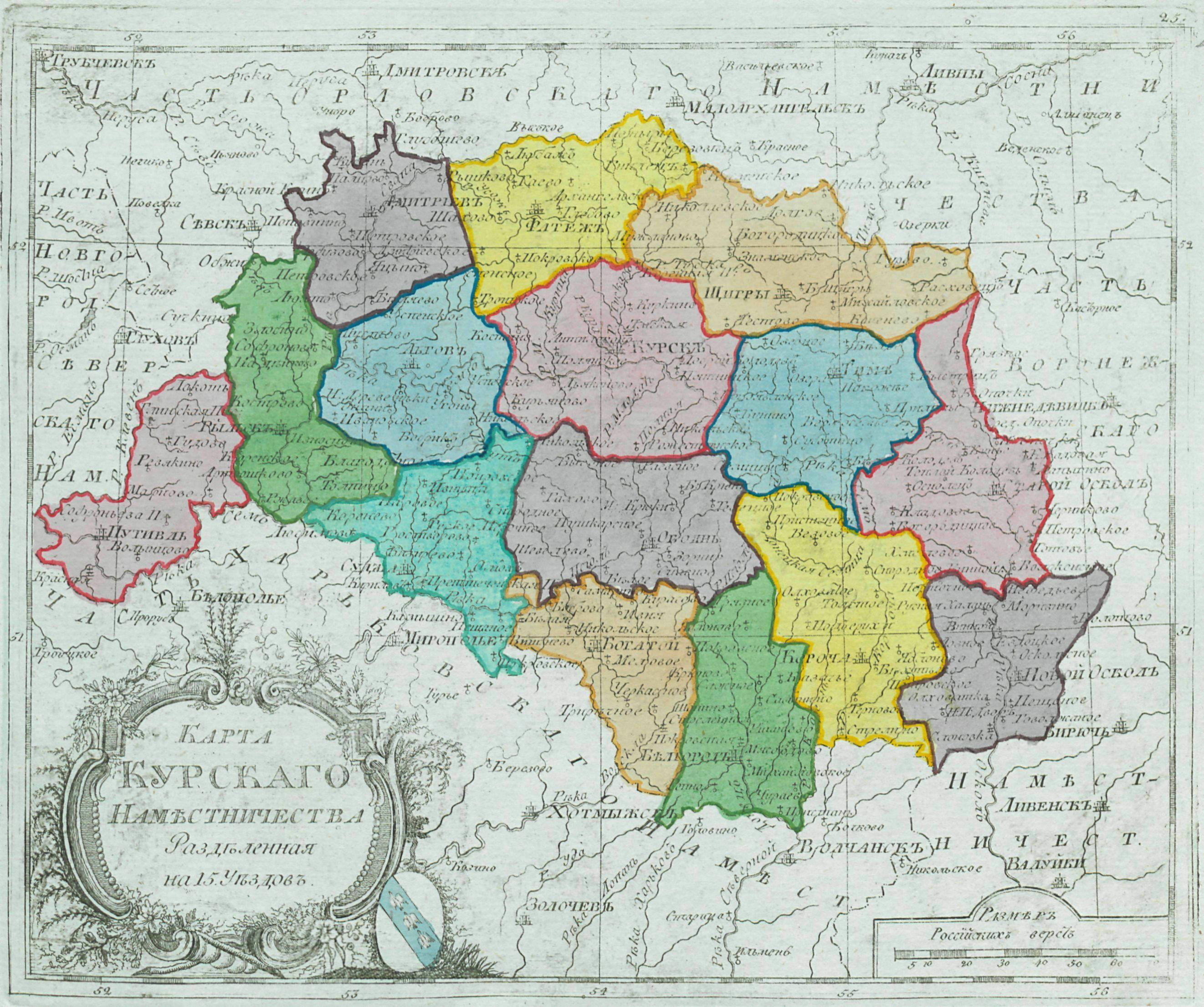 Small atlas of the Russian Empire (1792). Map of Kursk Namestnichestvo (map 24).